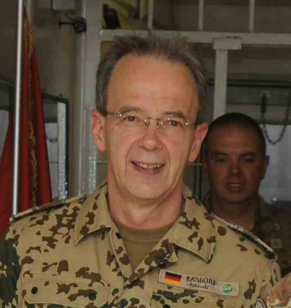 Herat, Afghanistan (July 20) LTG Bruno Kasdorf (ISAF COS) visited RCW HQ, accompanied by BG Claudio Berto - RCW COM.